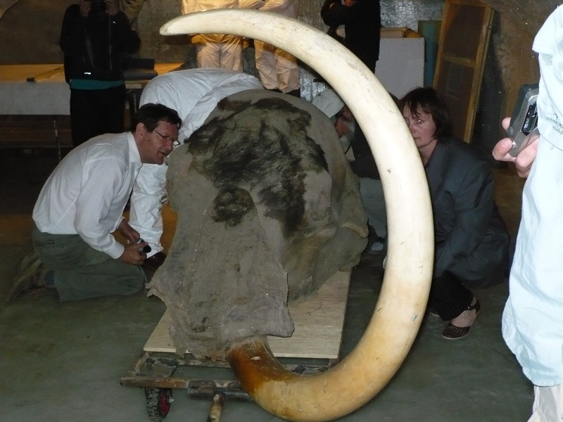 Head of the Yukagir mammoth, excavated in 2002.[1] This is the front of the skull.